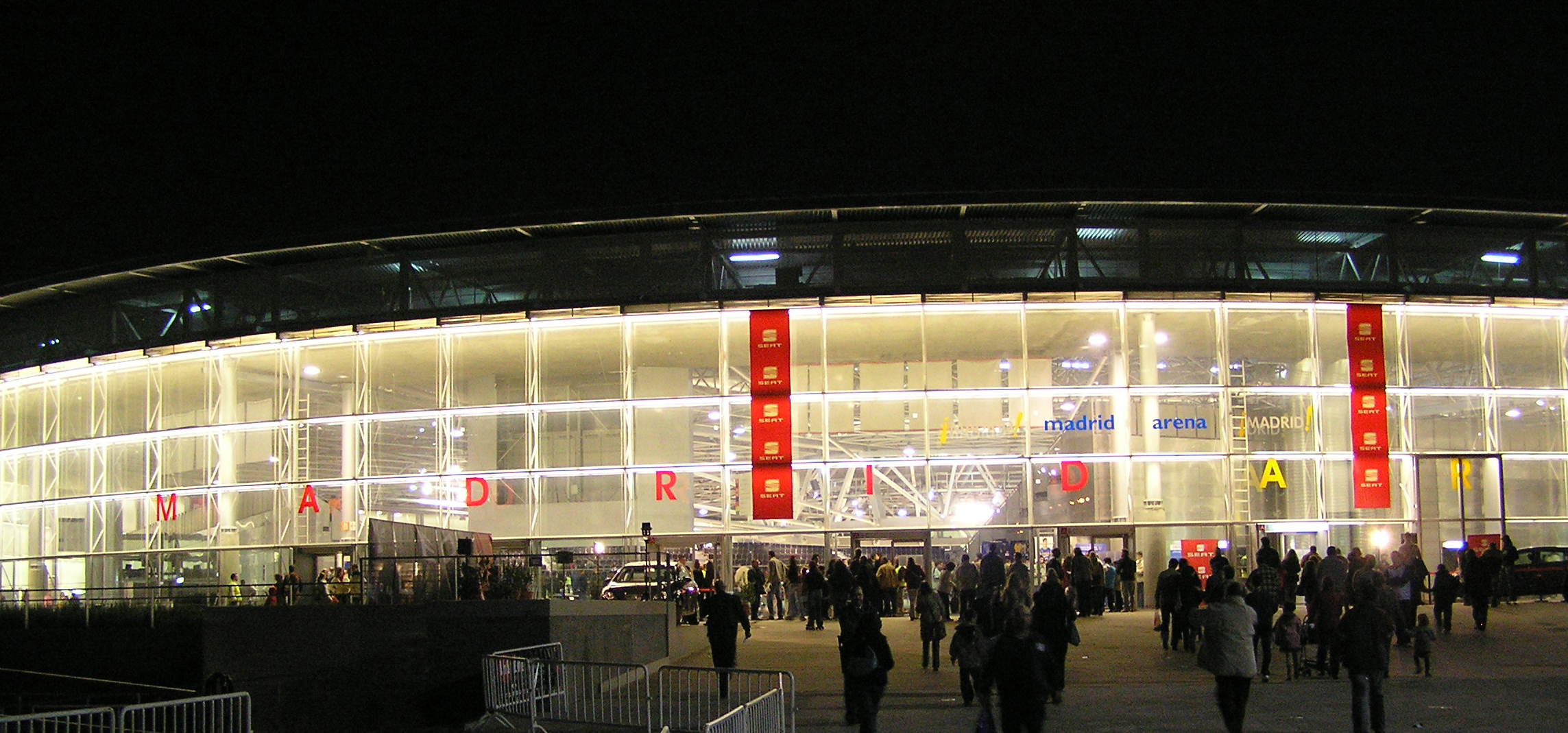 Madrid Arena Facade (Madrid, Spain) Author: Mr. Tickle Date: 19th November, 2005